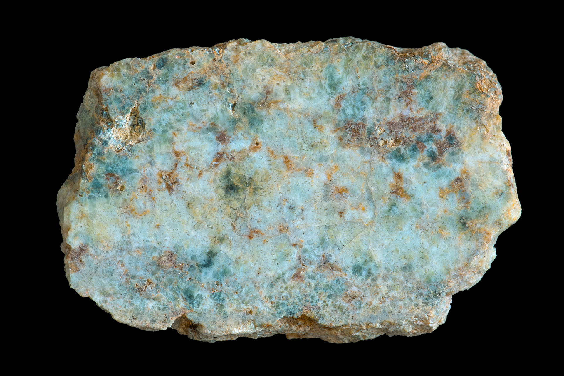 Chrysoprase (sometimes called pseudo-chrysoprase), polished, Bohouskovice near Kremze, Czech Republic